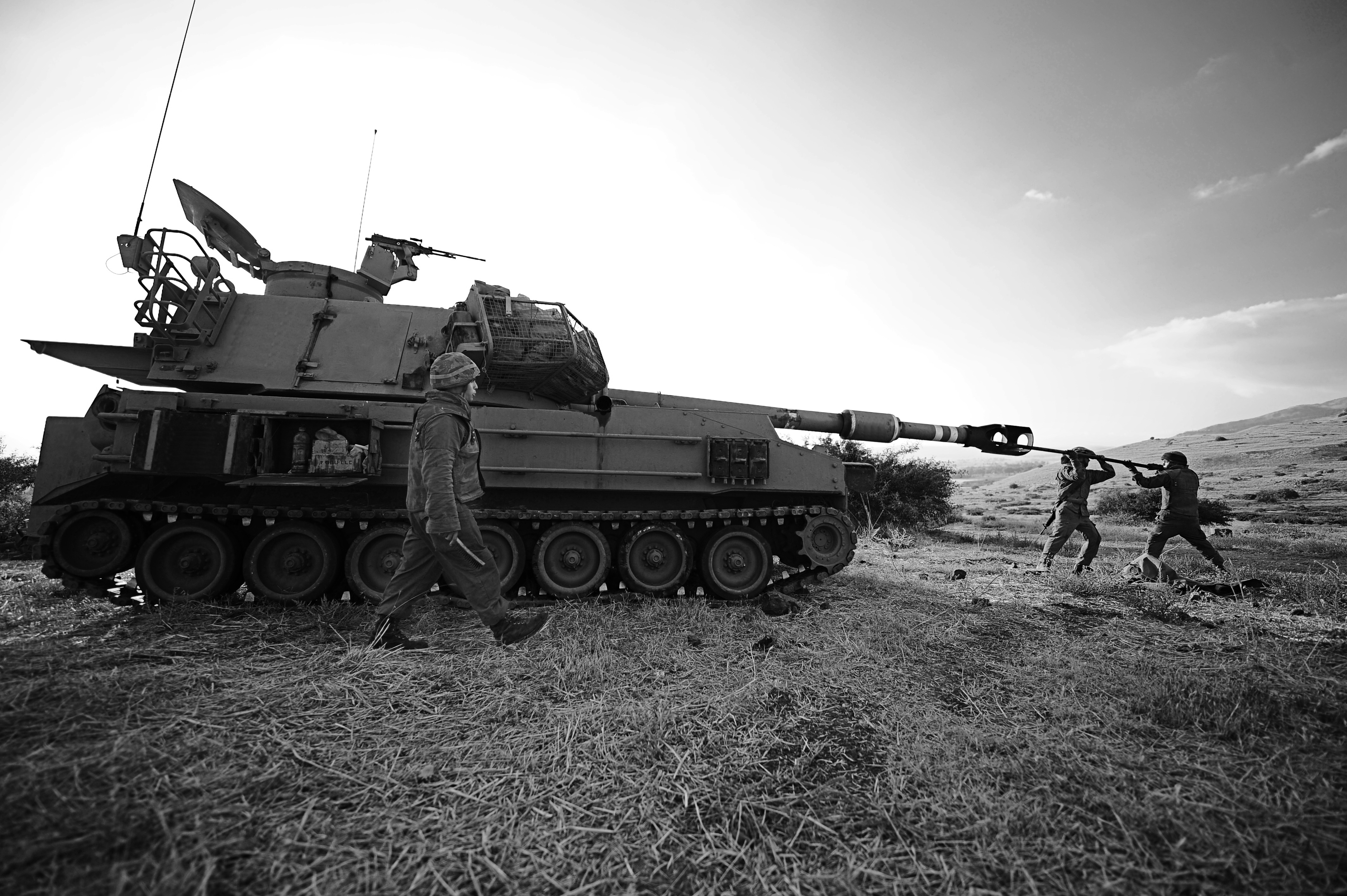 The IDF Artillery Corps is responsible for operating the army's network medium and long-range artillery. The corps is placed in charge of two principal tasks: assisting the maneuvering forces at the necessary time place, and with the required firepower. Its second task is to confront enemy forces deep inside the battlefield. Photo by Sgt. Ori Shifrin, IDF Spokesperson's Unit